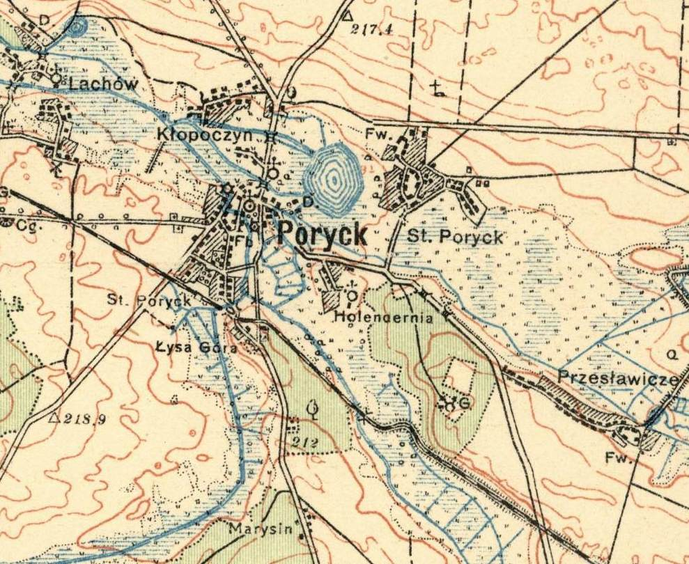 One piece Horochów district map (1926).